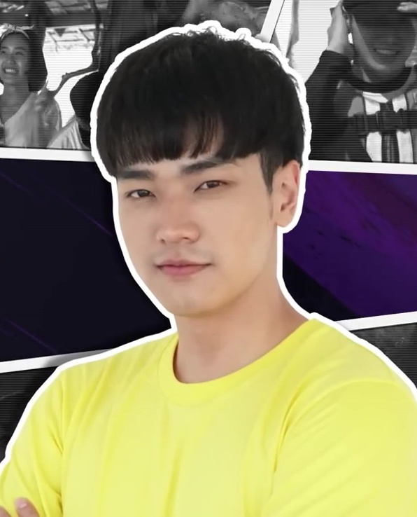 Oabnithi Wiwattanawarang, screen capture from promotional video for Game of Teens